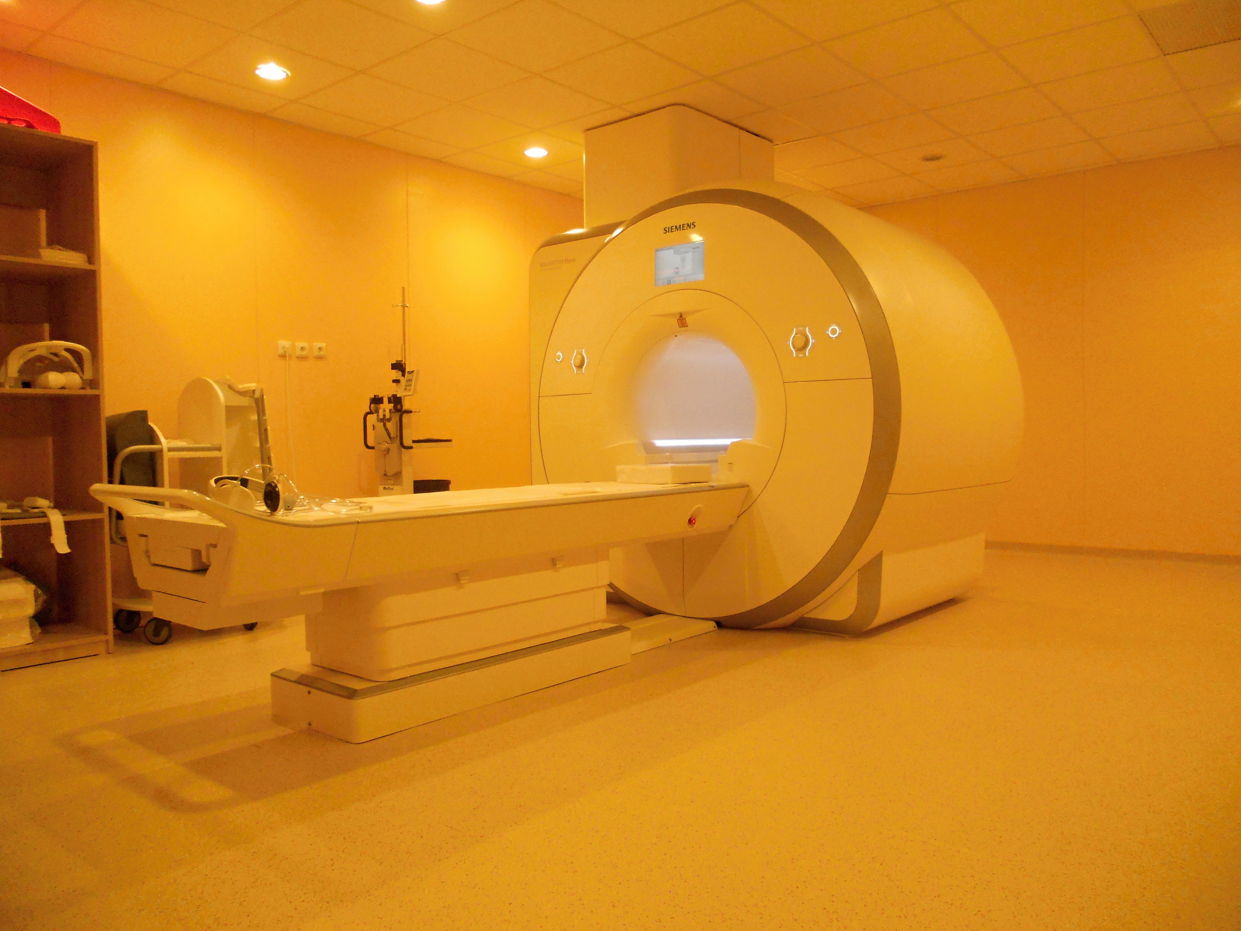 Magnetic Resonance 3 Tesla - Skyra 3T